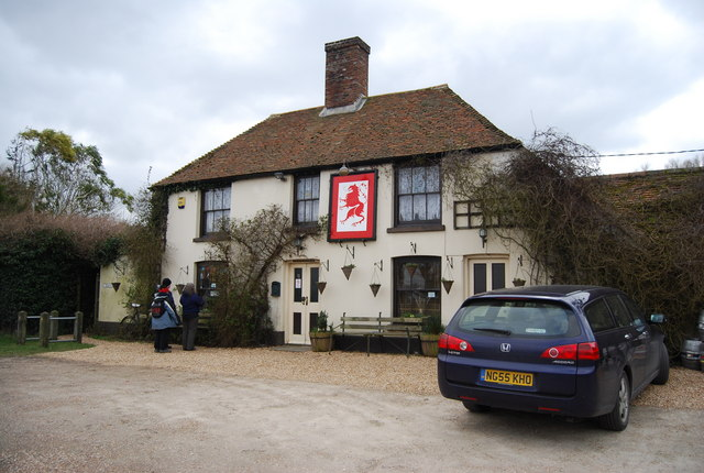 The Red Lion, Snargate A gem of a pub! Owned by the same family for 100 years. The present owner is an ex-land girl. The pub is in the CAMRA inventory of unspoilt pubs. The interior is like returning to the 1940s, full of old pictures & adverts. Beer is served straight from the barrel & no draught lager (bottles only). No food served other than bar snacks. Worth finding!